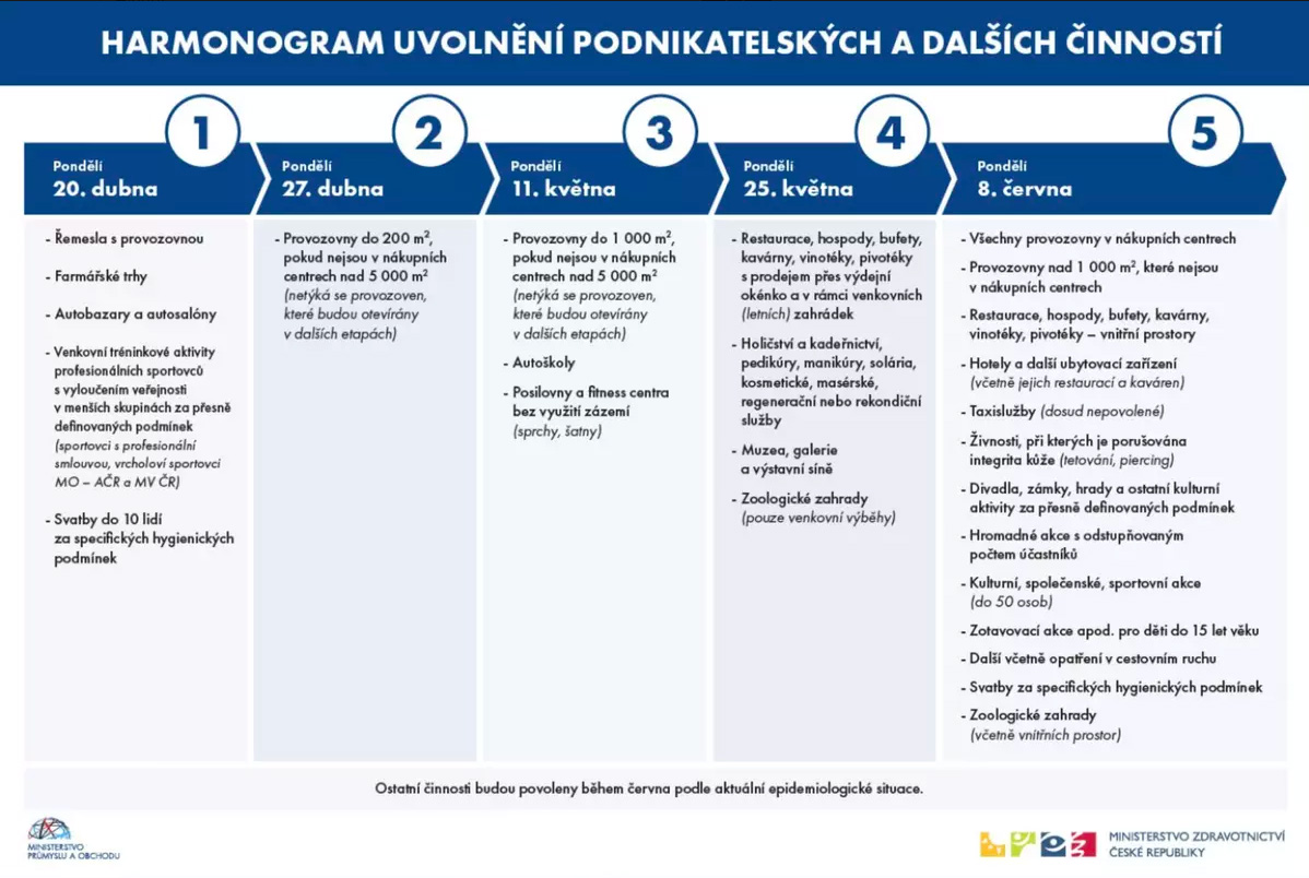 Infographic for the official 5 step reopening plan (in Czech) as released by the Czech government